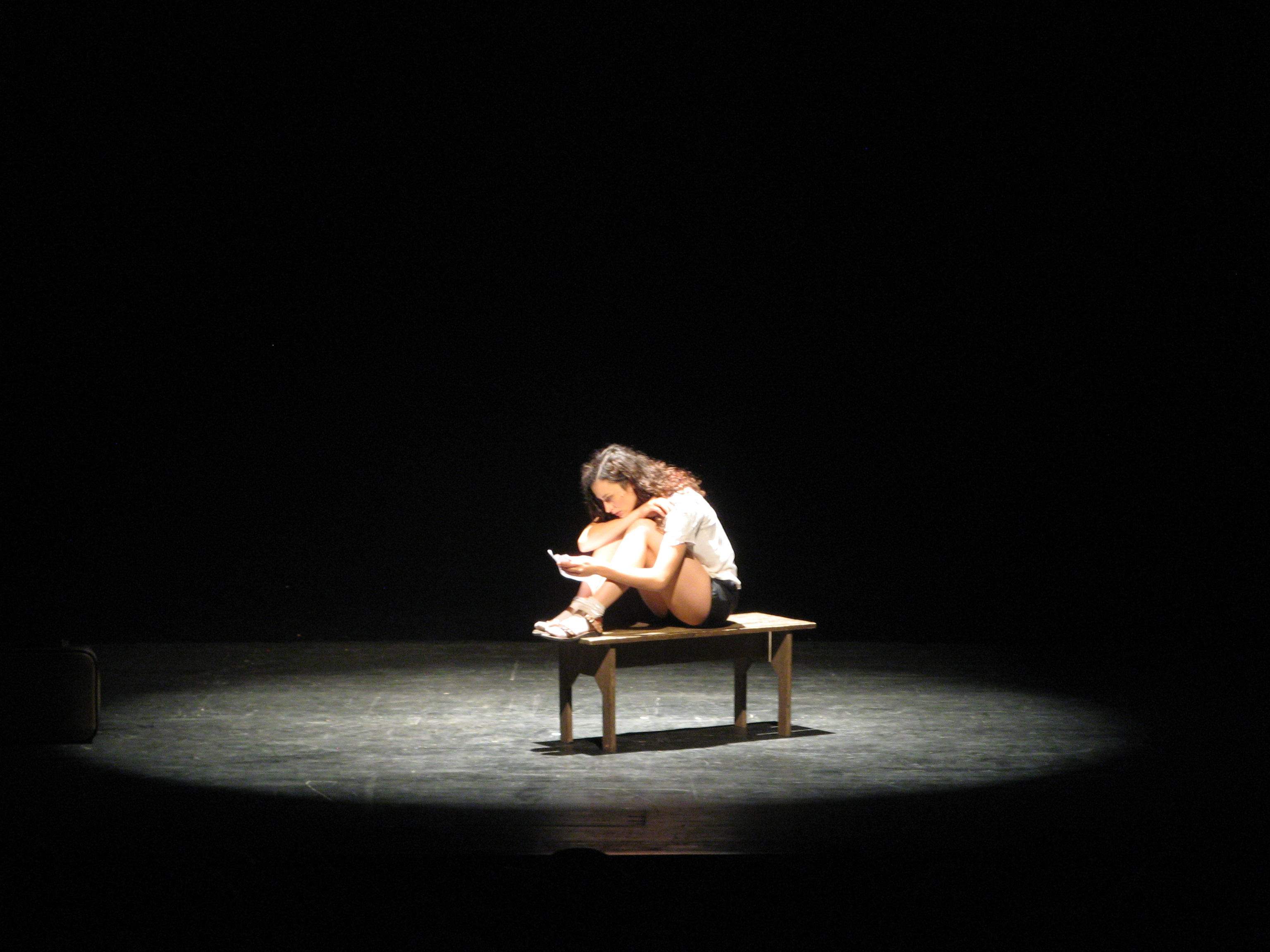 Adi Bielski as "Margalit" in the play "An Eretz-Israeli Love Story", playing in the regional council of Eilot.